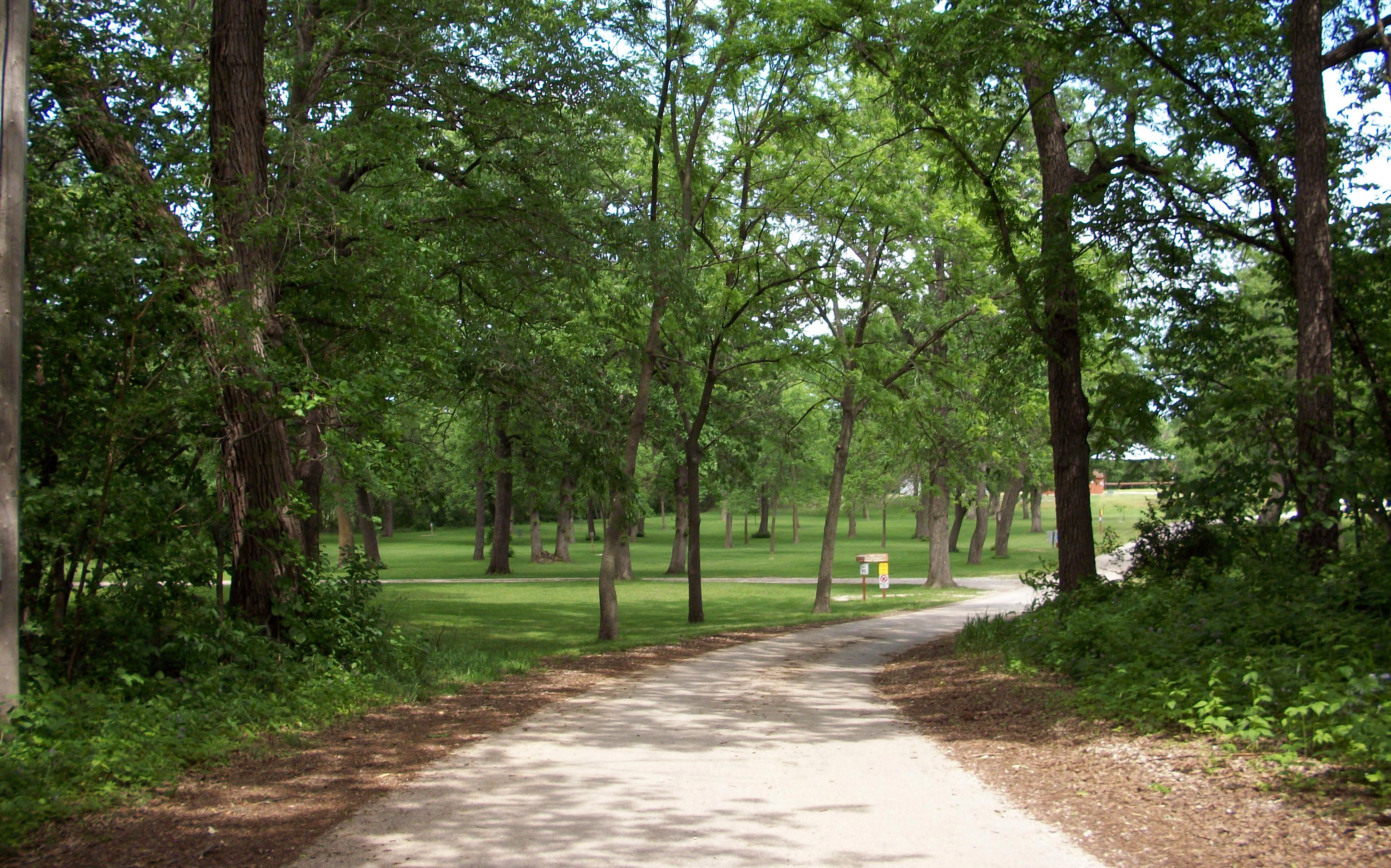 Sheldon Park lower porton in Humboldt, Iowa, 50548.